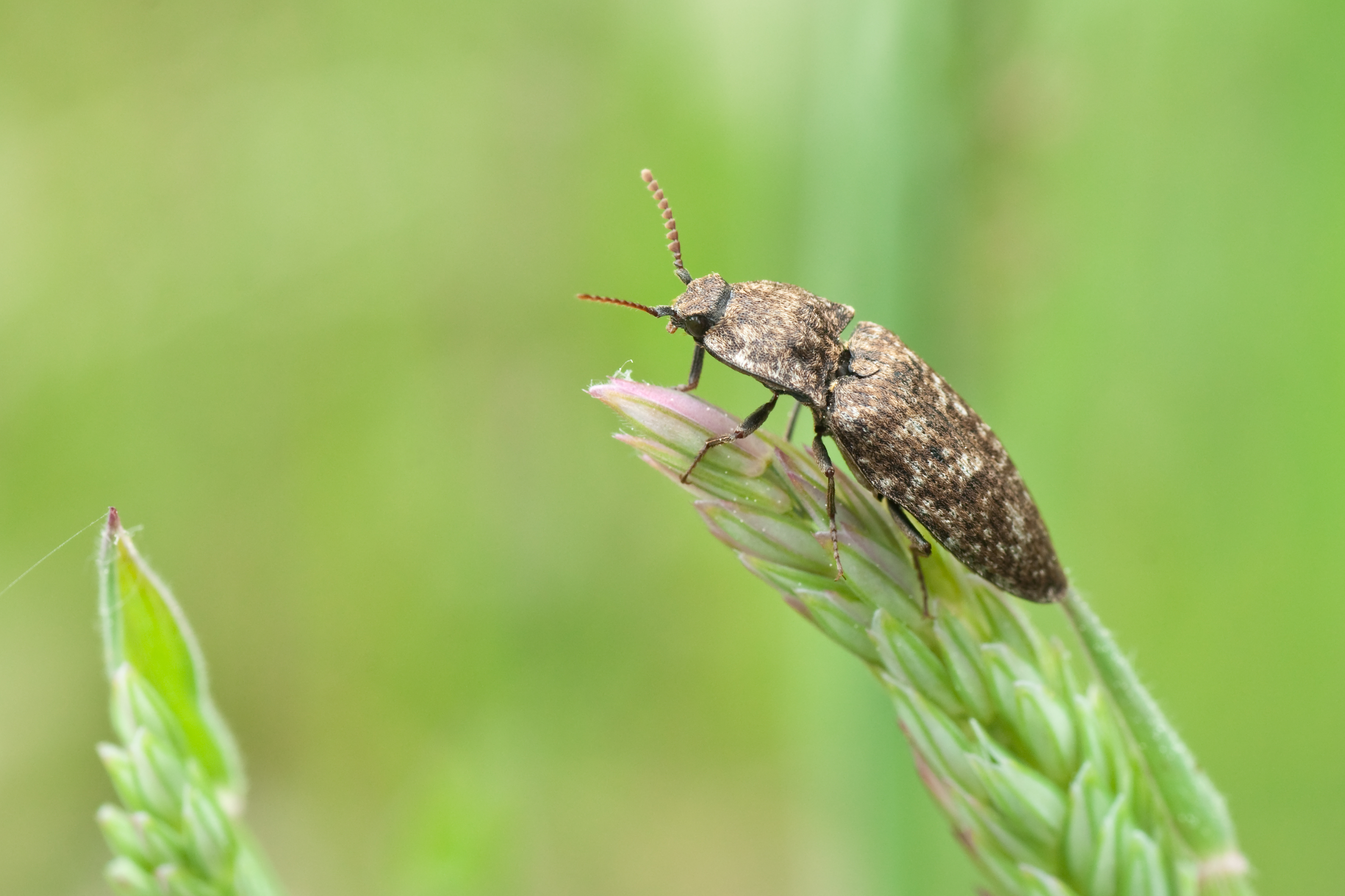 an Agrypnus murinus, a genus of click beetles